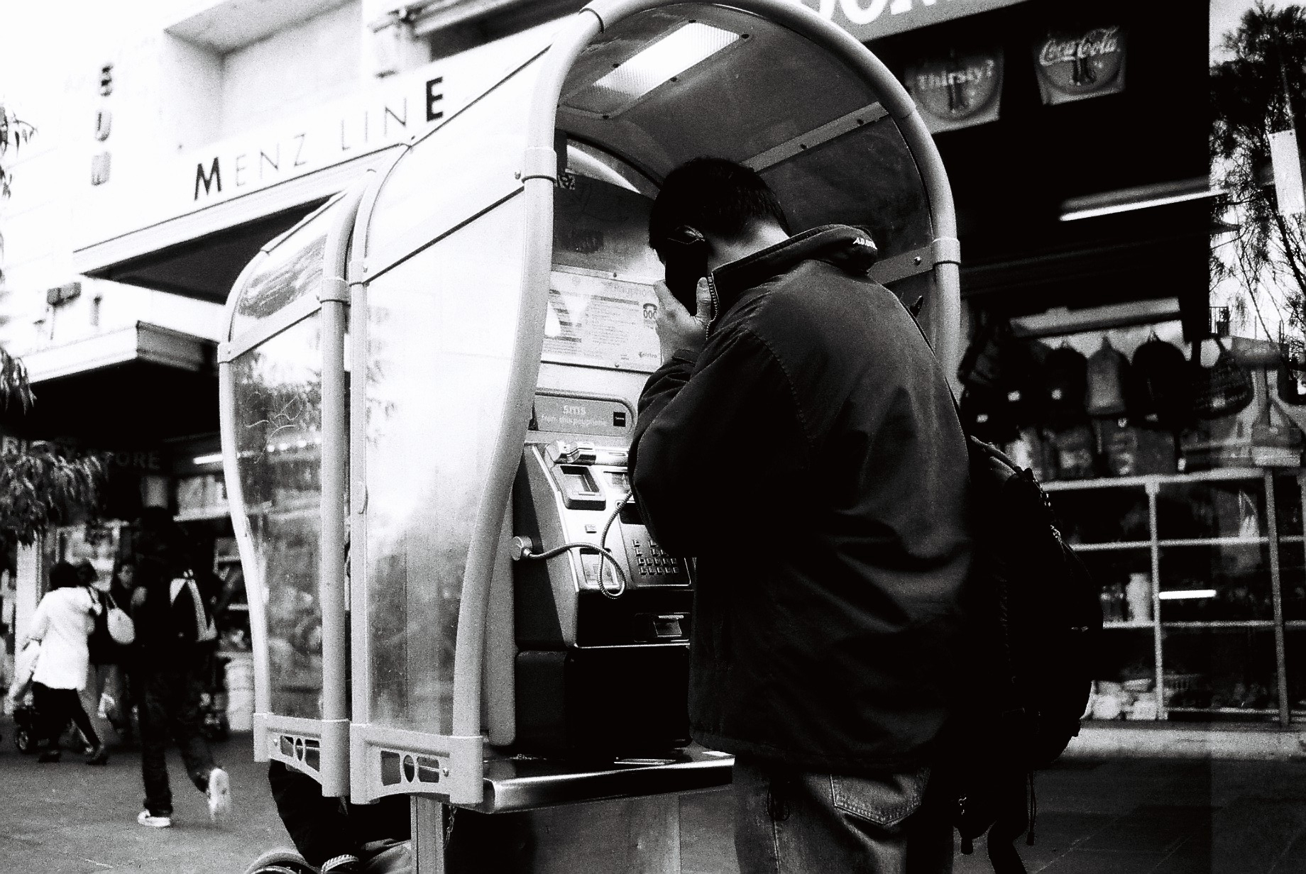 A man using a phone Box, in the city of Melbourne, Victoria, Australia.